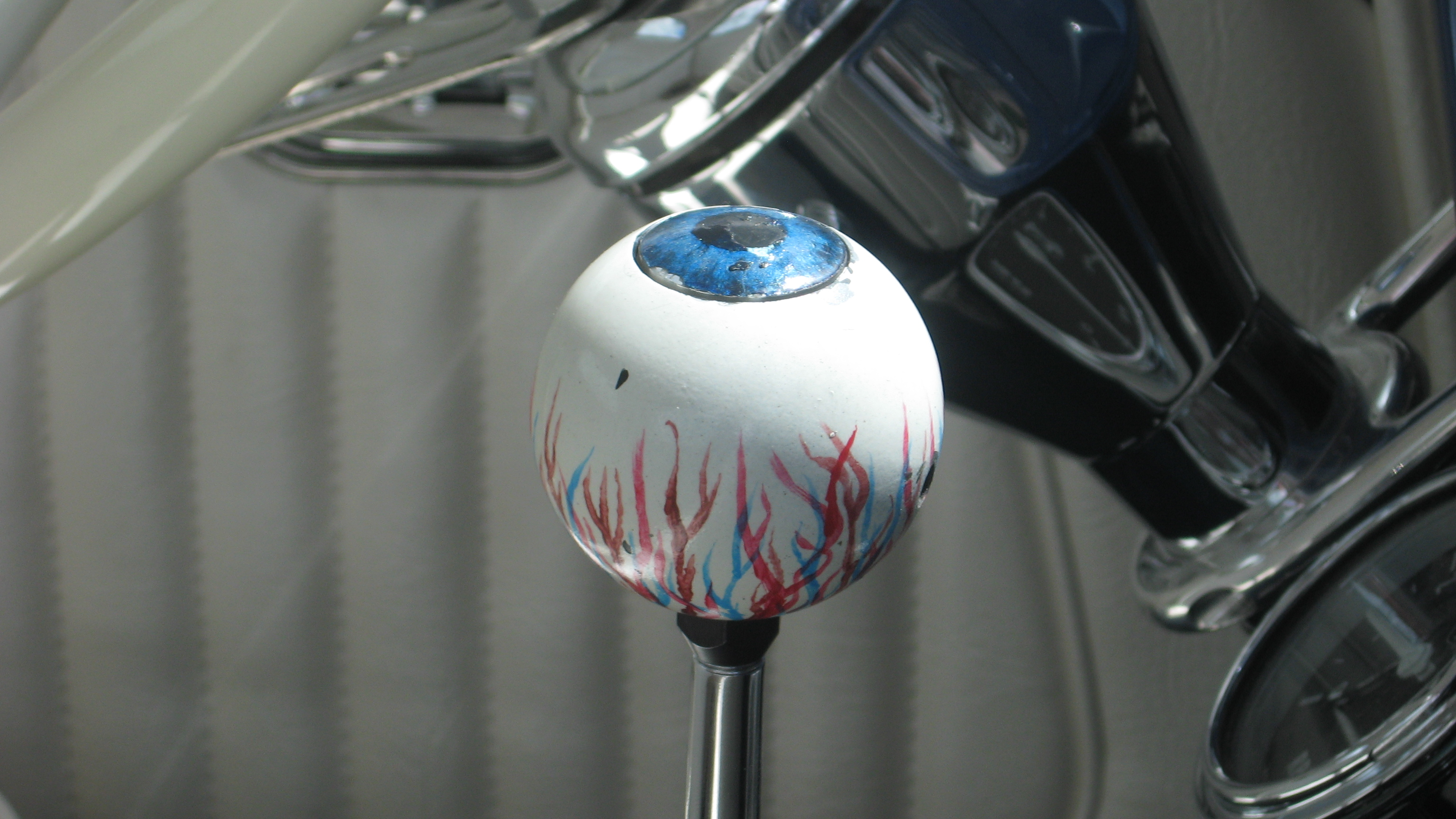 'Big Daddy' Roth 'bloodshot eyeball' shifter knob, shot at local car show/swap meet